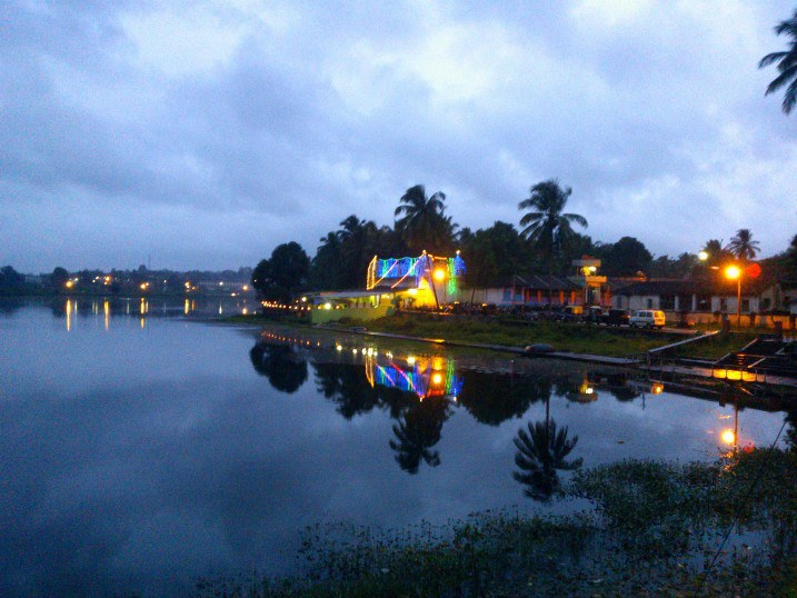 It gives information about historical lake